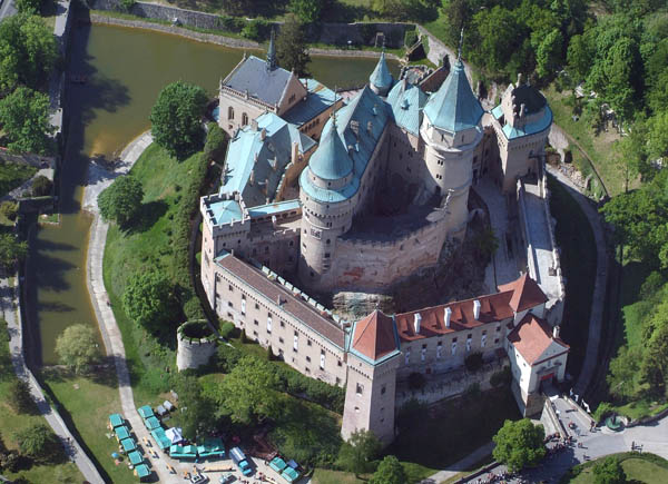 Bojnice, aerial photography of the Castle, Slovakia